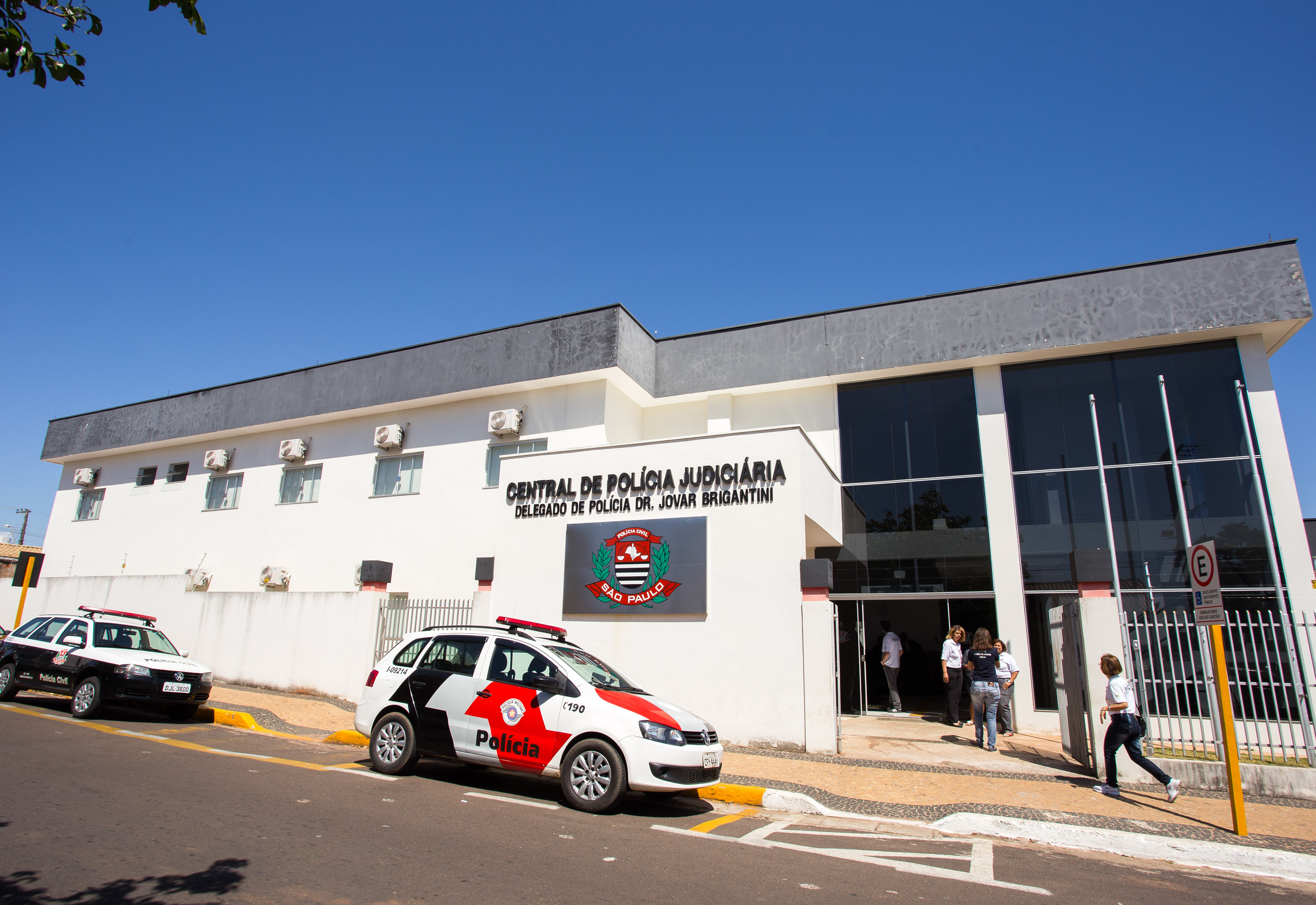 O Governador do Estado de São Paulo, participa da inauguração do Poupatempo, descerra placa da Delegacia de Polícia e placa da conservação especial da SP-294 na cidade de Tupã.Data: 27/08/2016. Local: Tupã/SP.Foto: Diogo Moreira/A2img